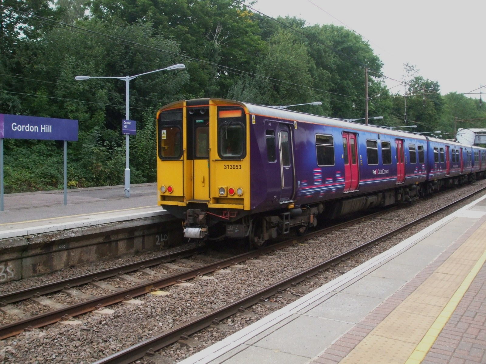 Clas 313 unit 313053 departs Gordon Hill station with a northbound service